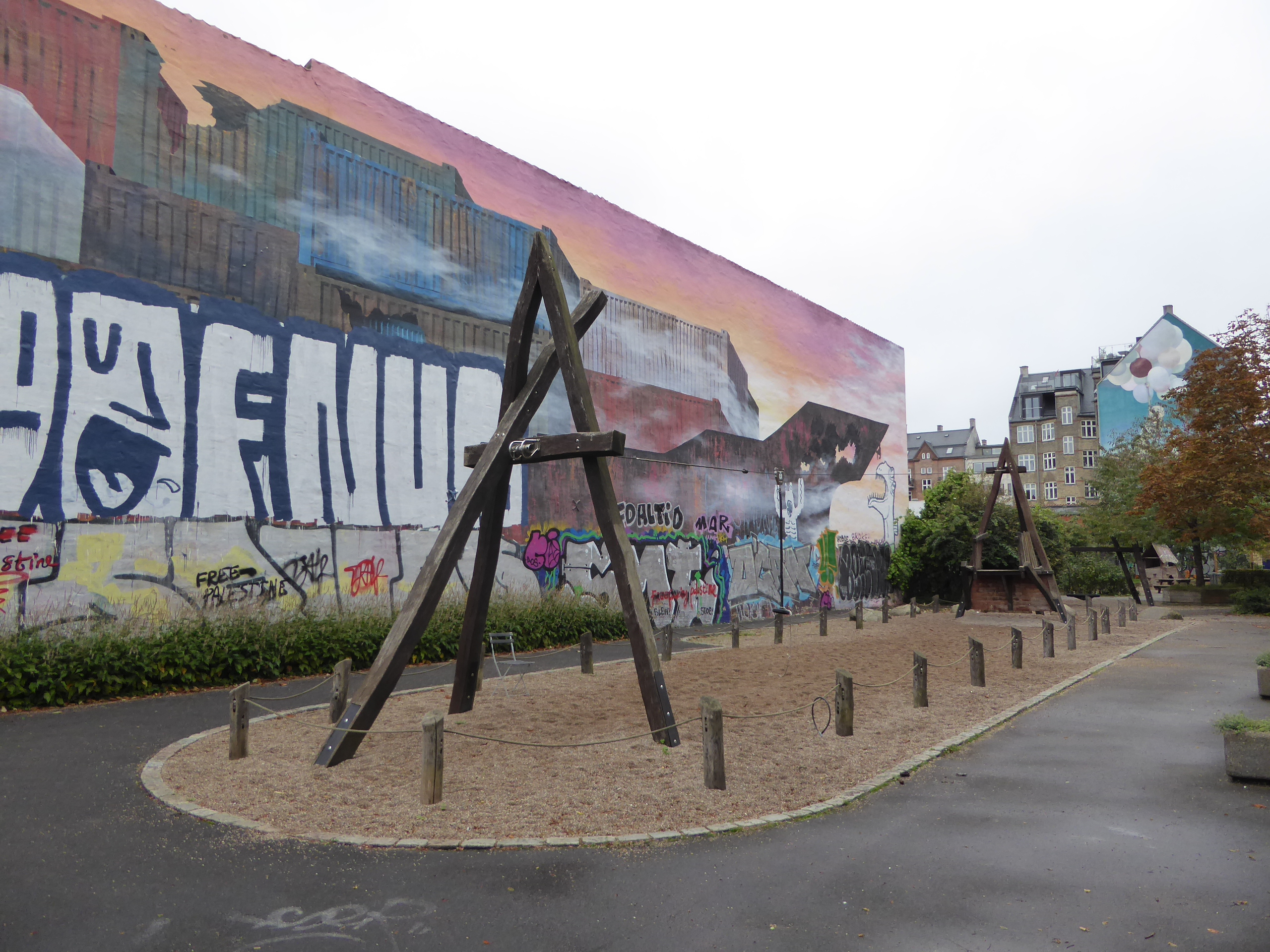 Playground at Odinsgade in Nørrebro in Copenhagen.